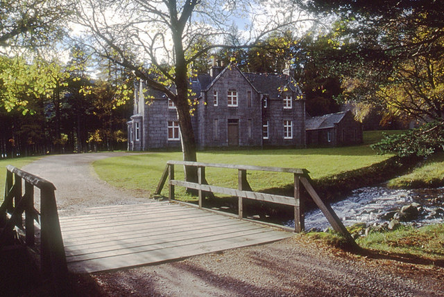 Glas-allt-Shiel, Loch Muich Taken from the bridge over the Glas Allt